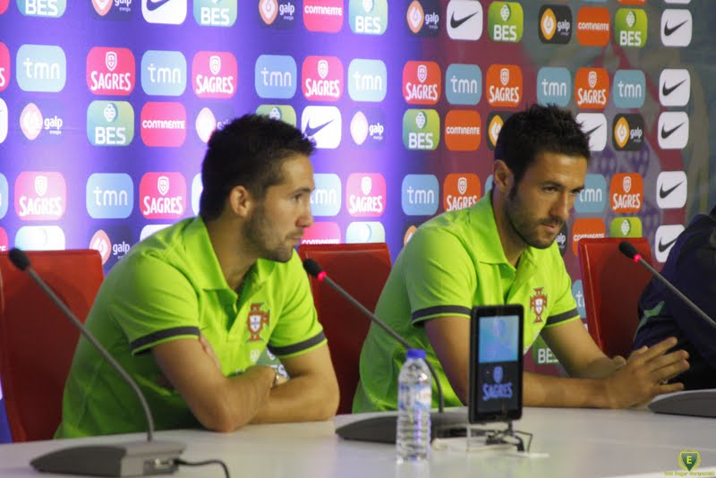 Hugo Viana and João Moutinho during press conference in Opalenica on 5-6-2012.